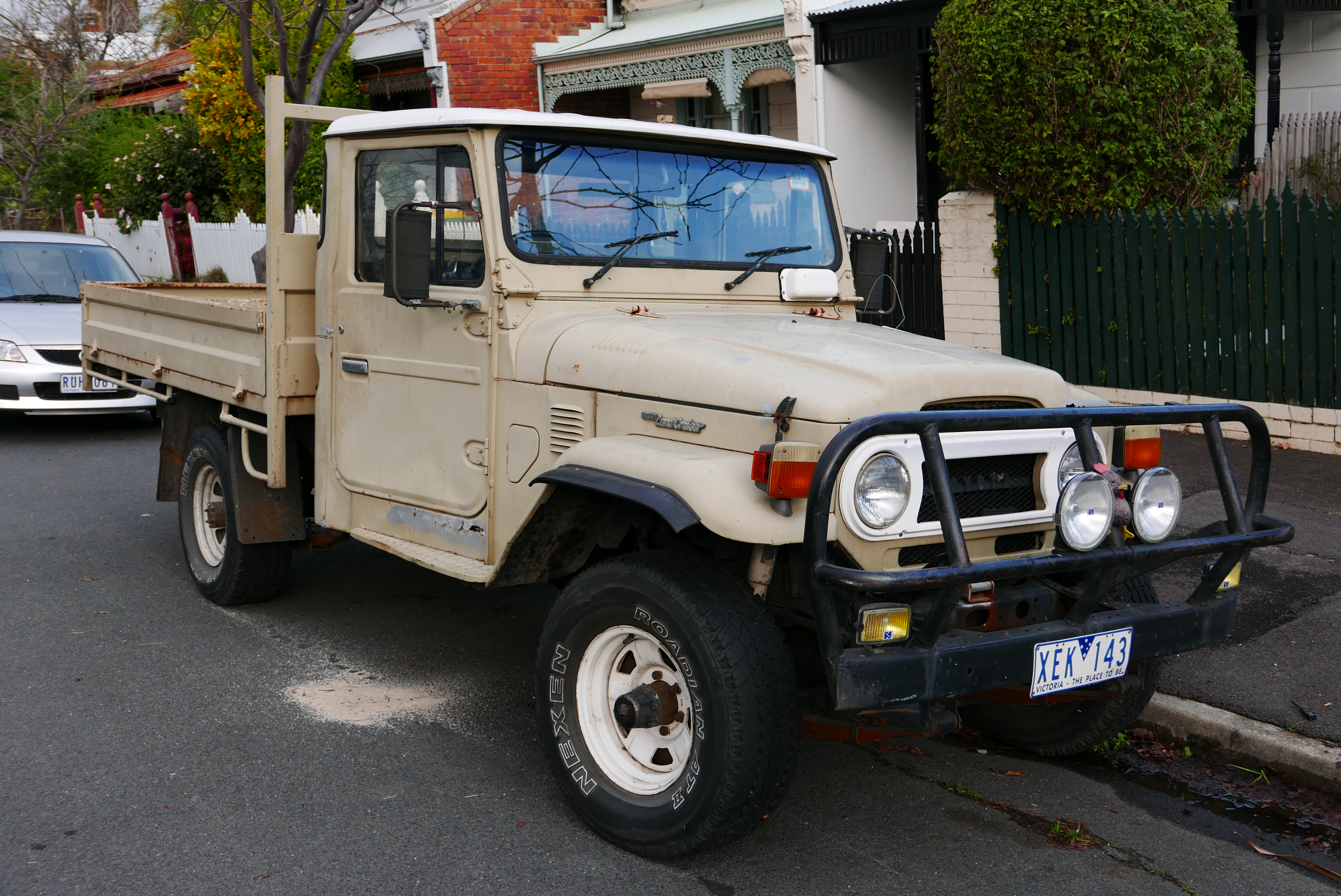 1981 Toyota Land Cruiser (HJ47) utility. Photographed in Northcote, Victoria, Australia. Vehicle registration enquiry results Jurisdiction Victoria Registration XEK143 Chassis code HJ47013930 Engine code 2H1106719 Compliance date 1981-11 Year of manufacture 1981